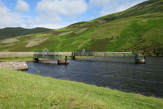 Loganlea Reservoir, Scotland, built to supply compensation water to mills on the River Esk, so that other sources could be used to supply Edinburgh with drinking water. James Leslie's characteristic twin outlet towers can be seen.